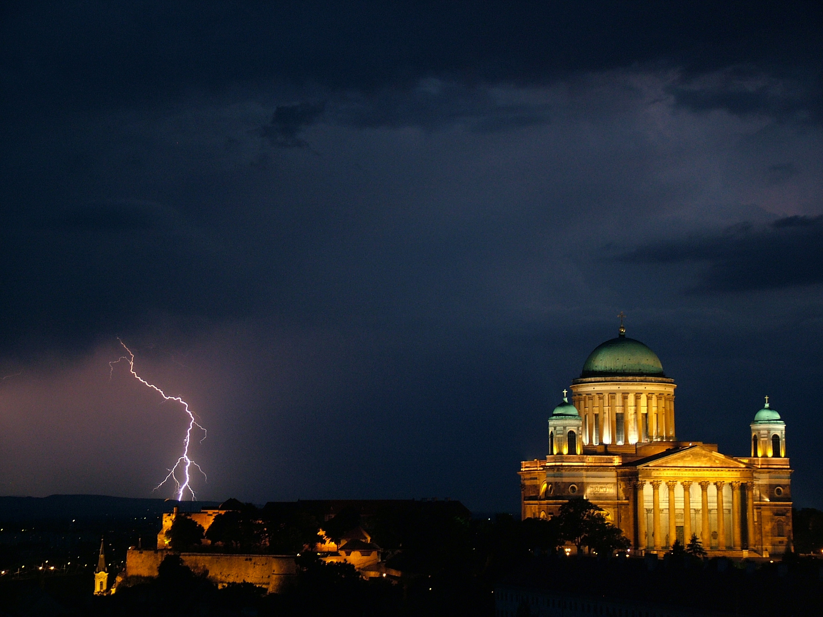 Primatial Basilica of the Blessed Virgin Mary Assumed Into Heaven and St Adalbert (Esztergom Basilica), Esztergom, Szent István Square